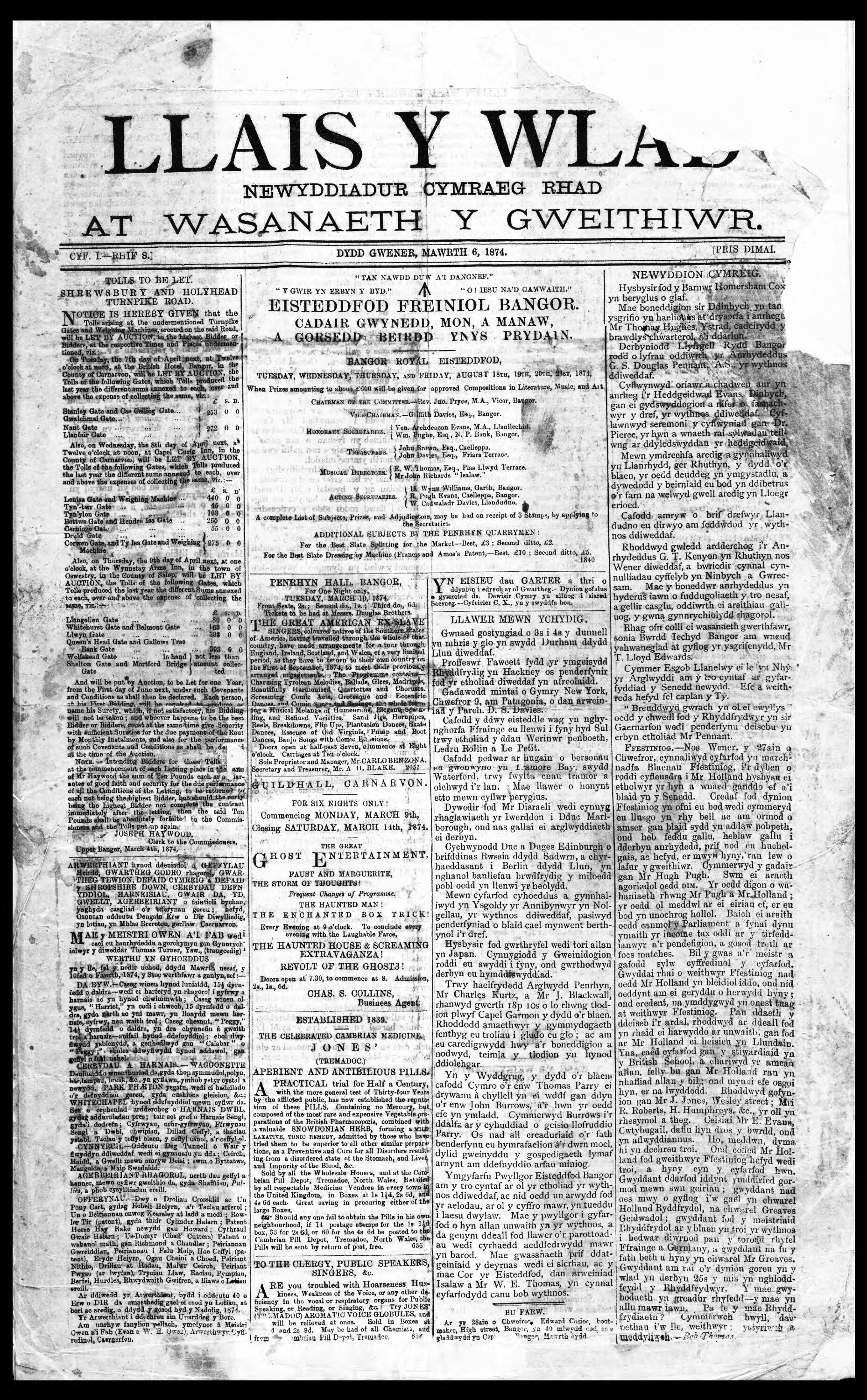 Front page of the earliest surviving copy of the Welsh newspaper Llais Y WladCymraeg: Tudalen flaen y copi cynharaf sydd yn bodoli o'r papur newydd Cymraeg Llais Y Wlad